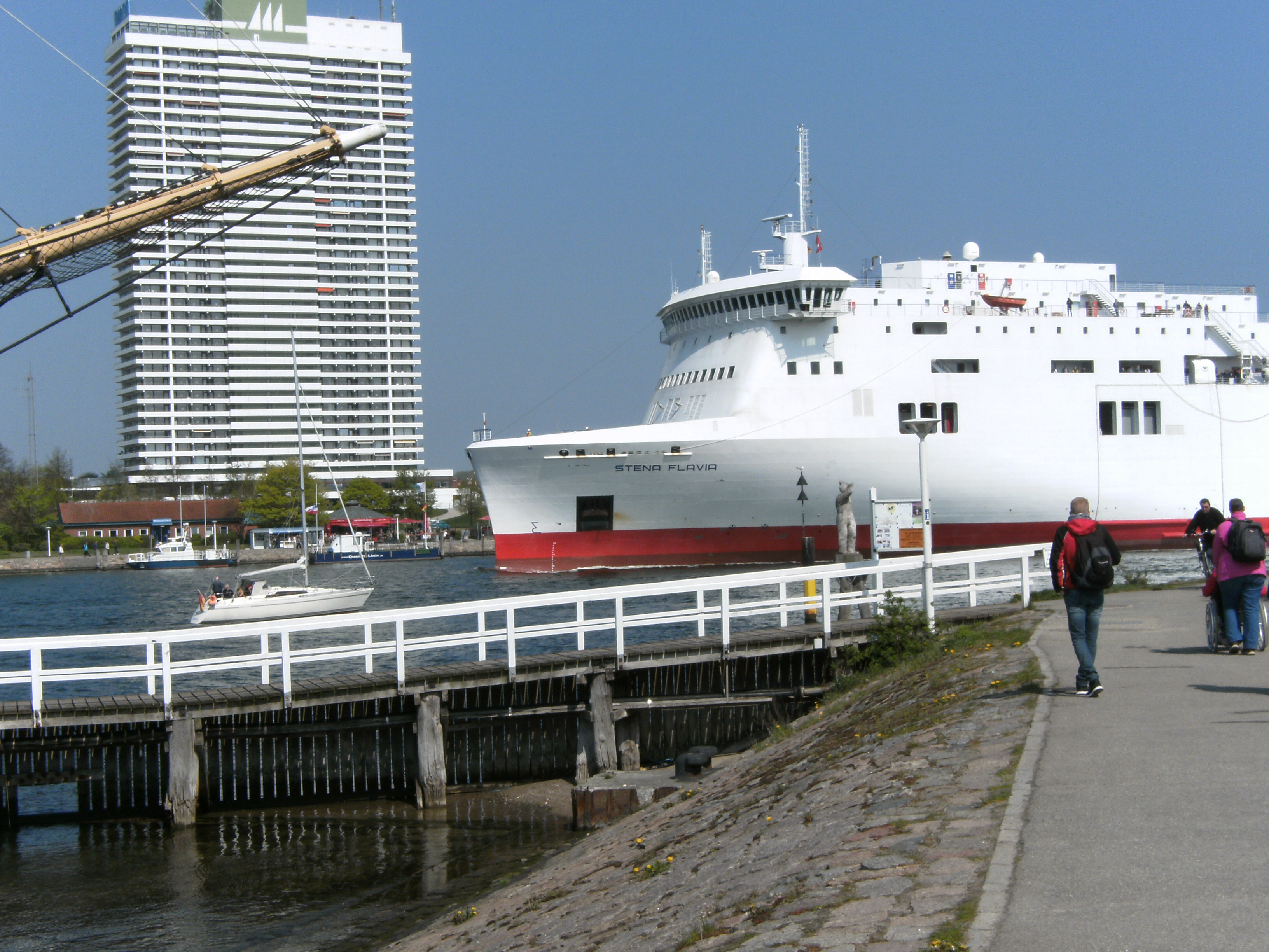 Ship Stena Flavia drives in the mouth of Trave river at Travemünde, Germany.